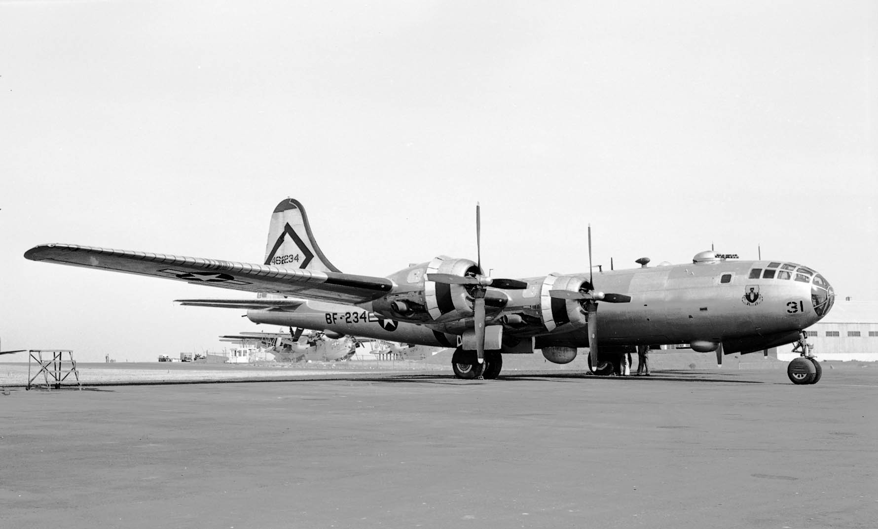 Boeing B-29A 44-62234 at SFO in May 1947.